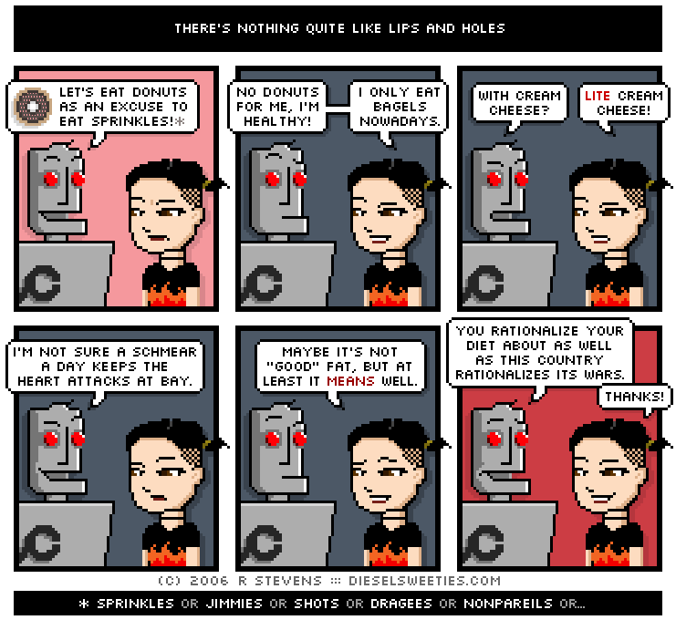 Sample of the comic Diesel Sweeties downloaded from